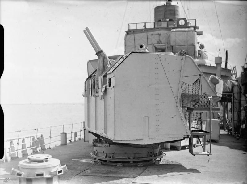 IWM caption : "The 6-pounder gun mark I in twin mark I turret on board HMS MACKAY whilst she is at Harwich." Comment : The guns are QF 6 pounder 10 cwt.